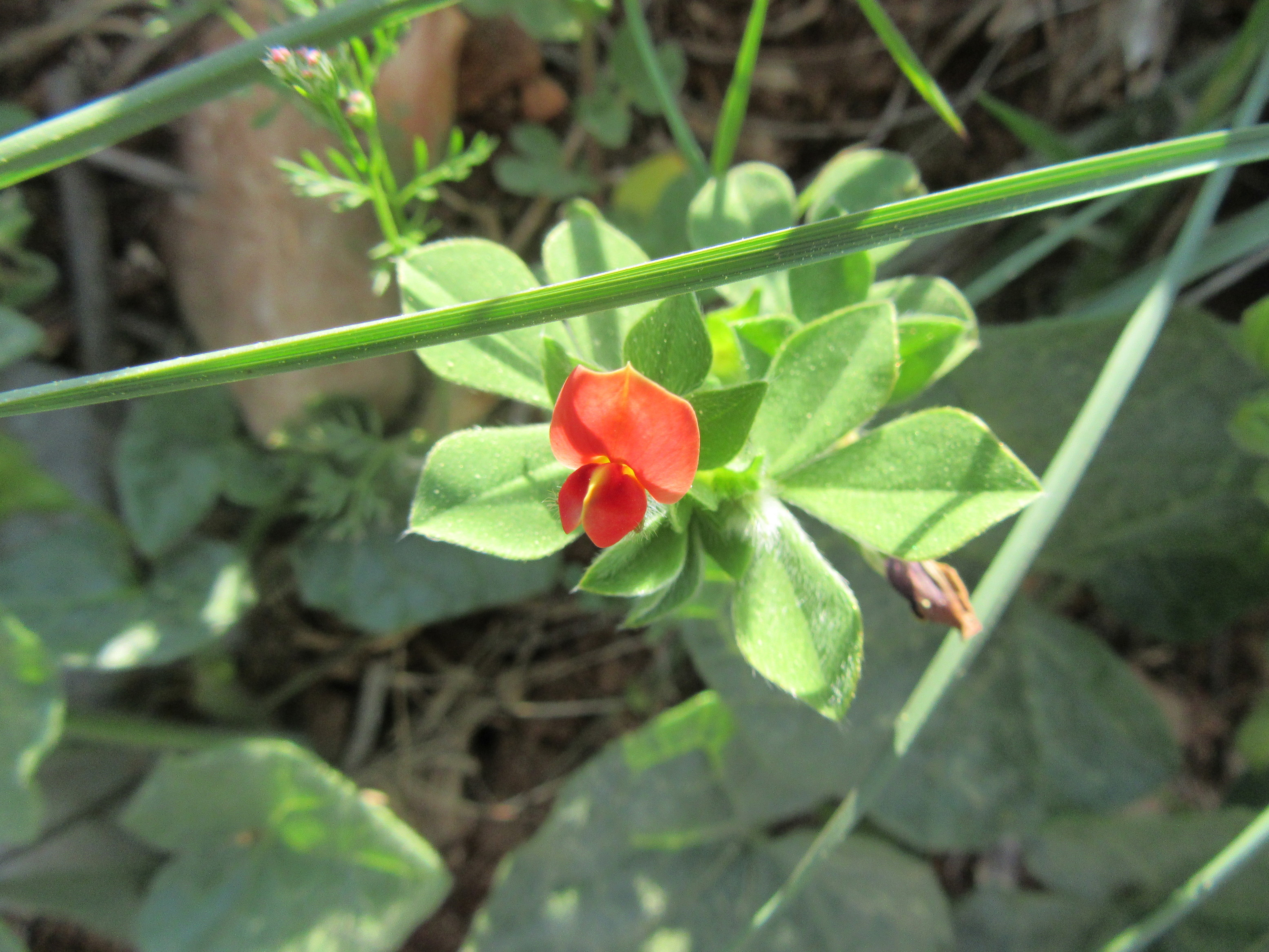 picture of Tetragonolobus palaestinus